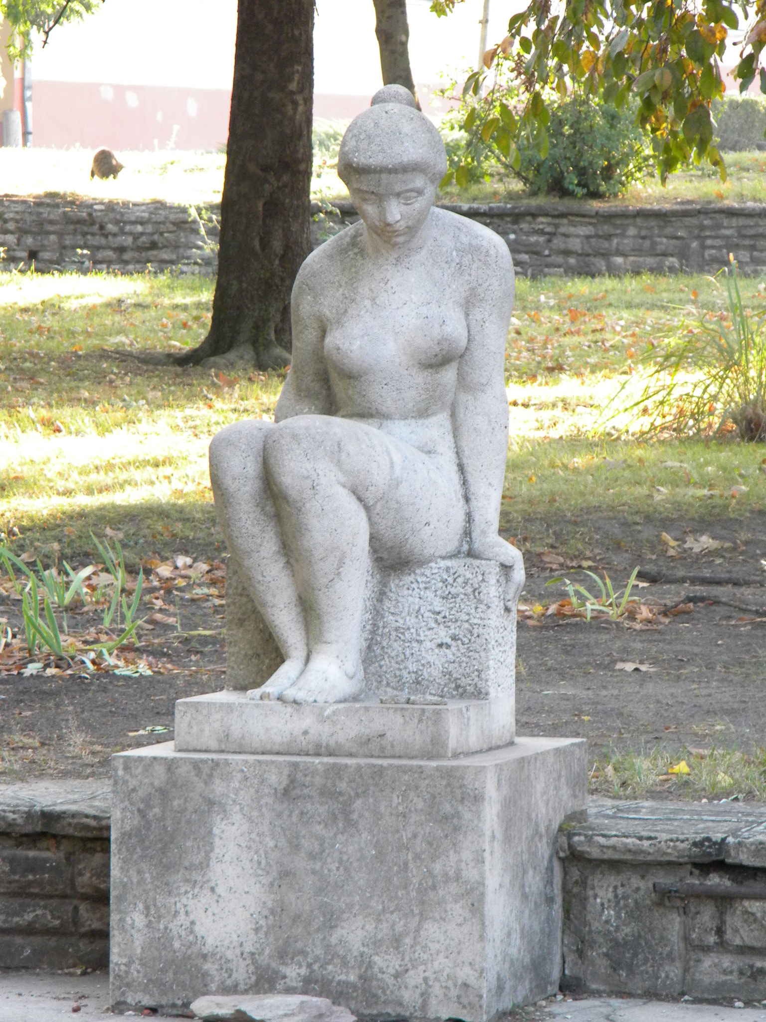 Location: Hungary, Tata